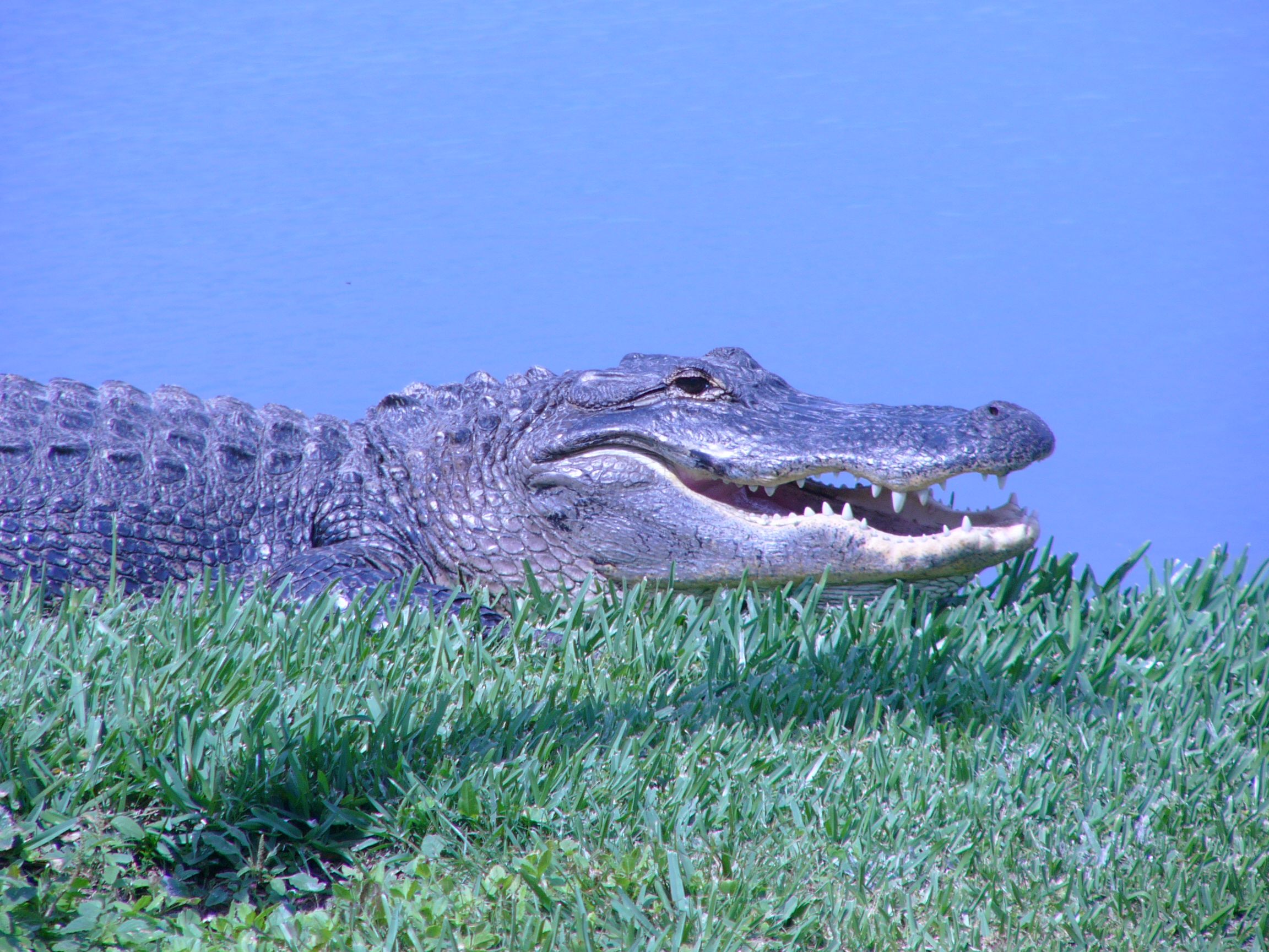 Alligator in Vero Beach, Fl